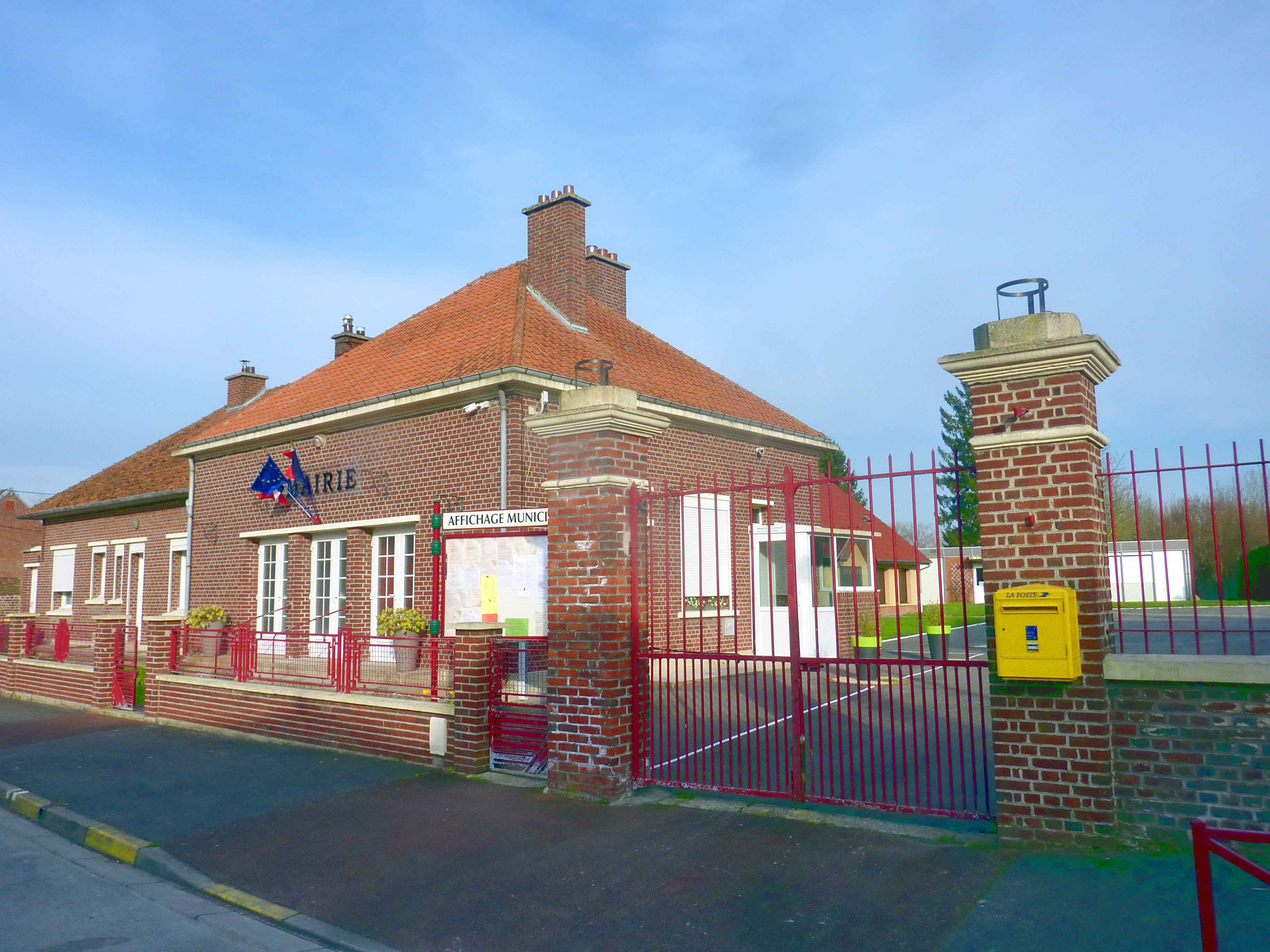 The town hall of Cerisy, village in Picardy, France.